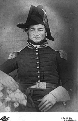 Riley Lucas Bartholomew Photographer: Beal Photograph Collection ca. 1870 Location no. por 16527 p2 Negative no. 91476